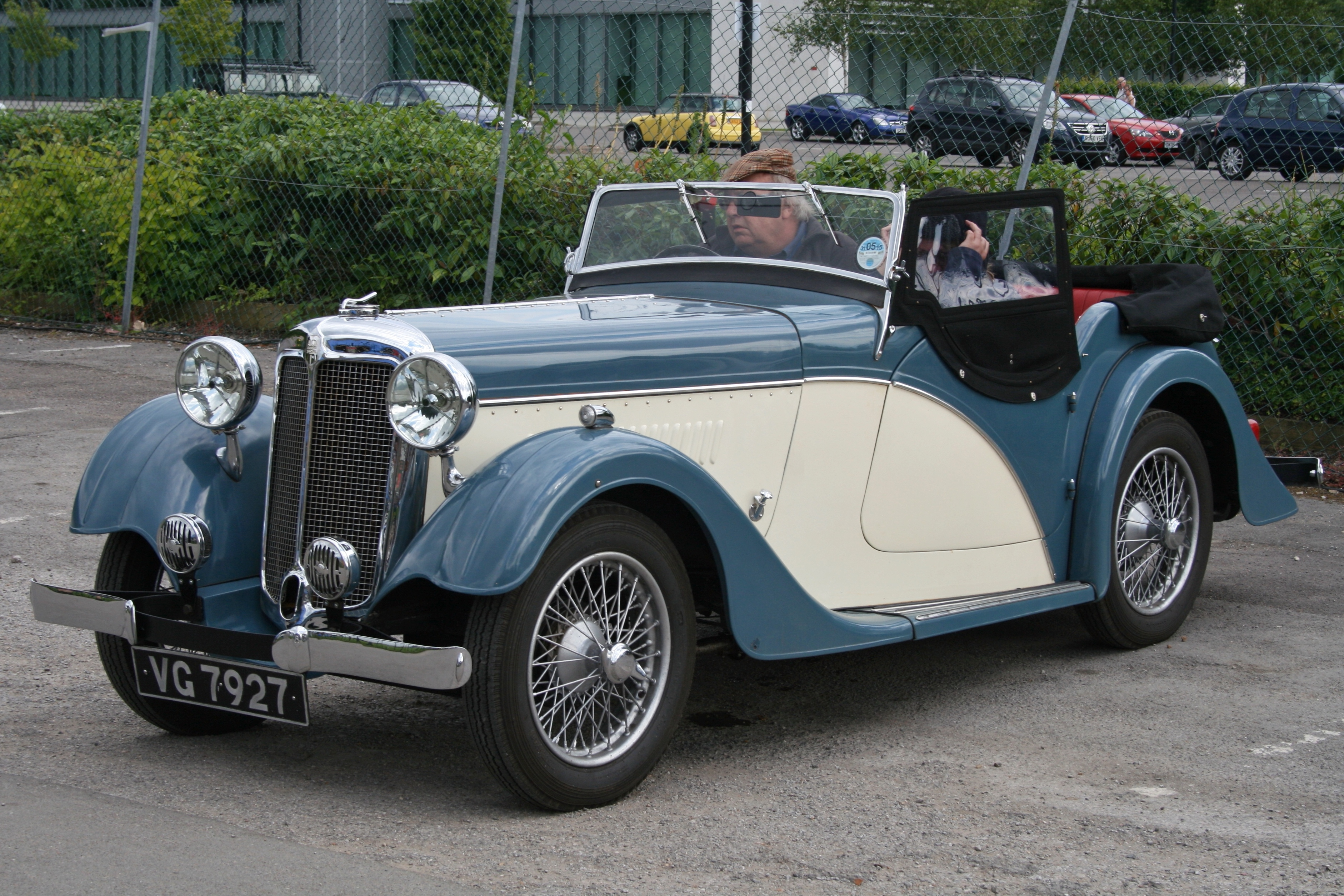 1935 Avon Standard Tourer registered September 1935 1608cc